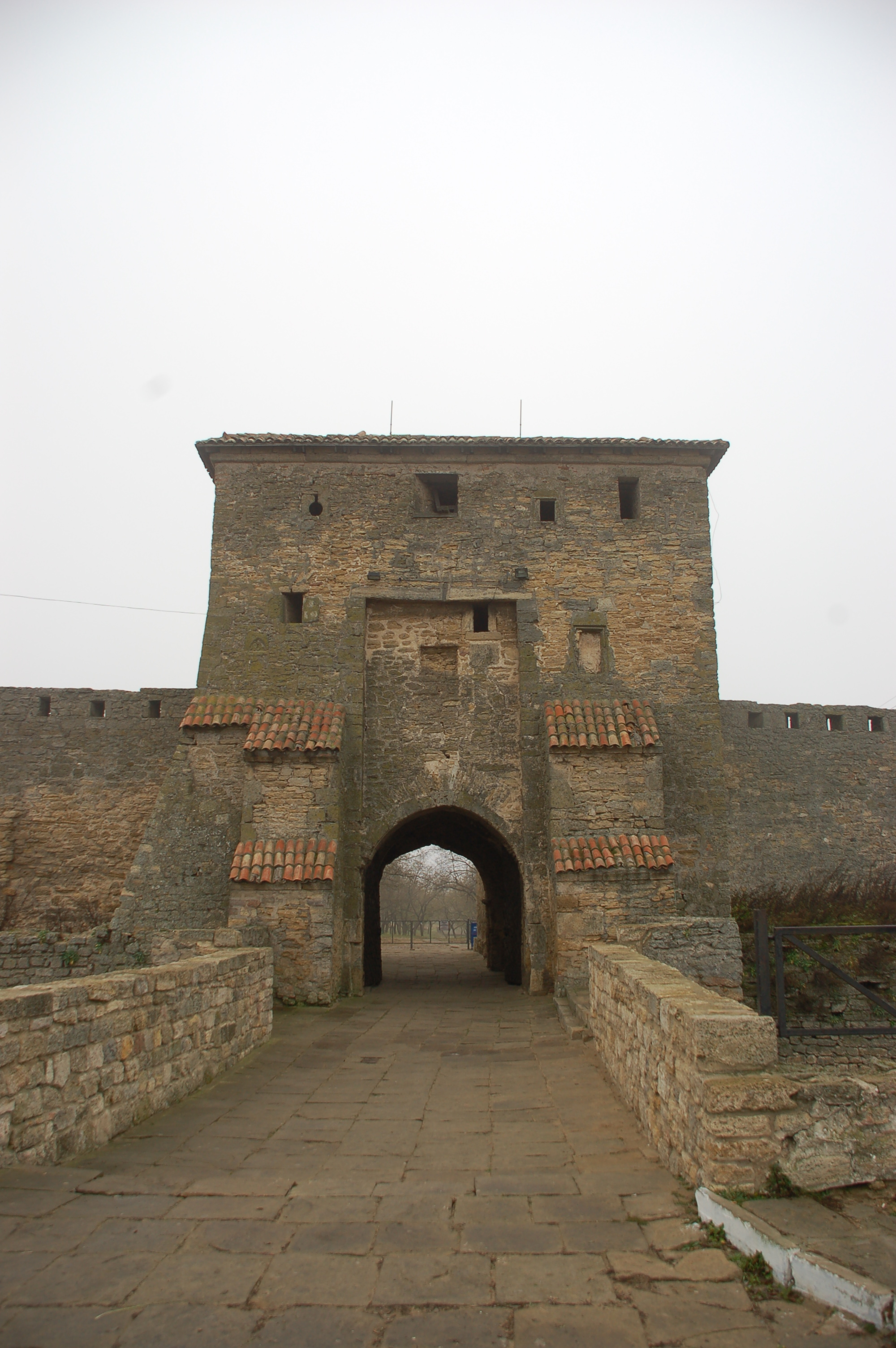 The main entrance to the fortress in Bilhorod-Dnistrovskyi